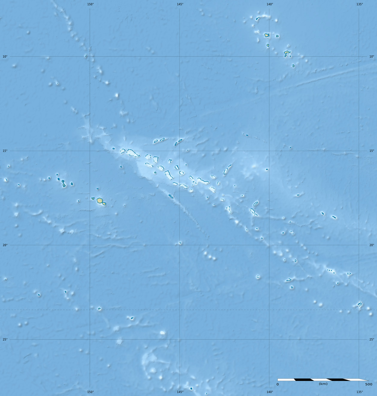 Blank physical map of the overseas collectivity of French Polynesia, France, for geo-location purpose.